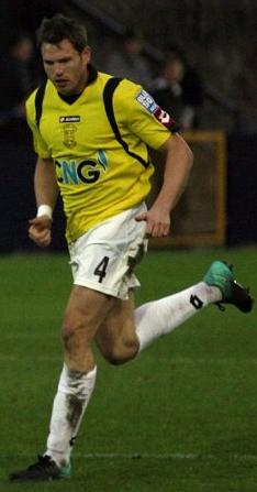 Harrogate Town footballer Ciaran Tonar.